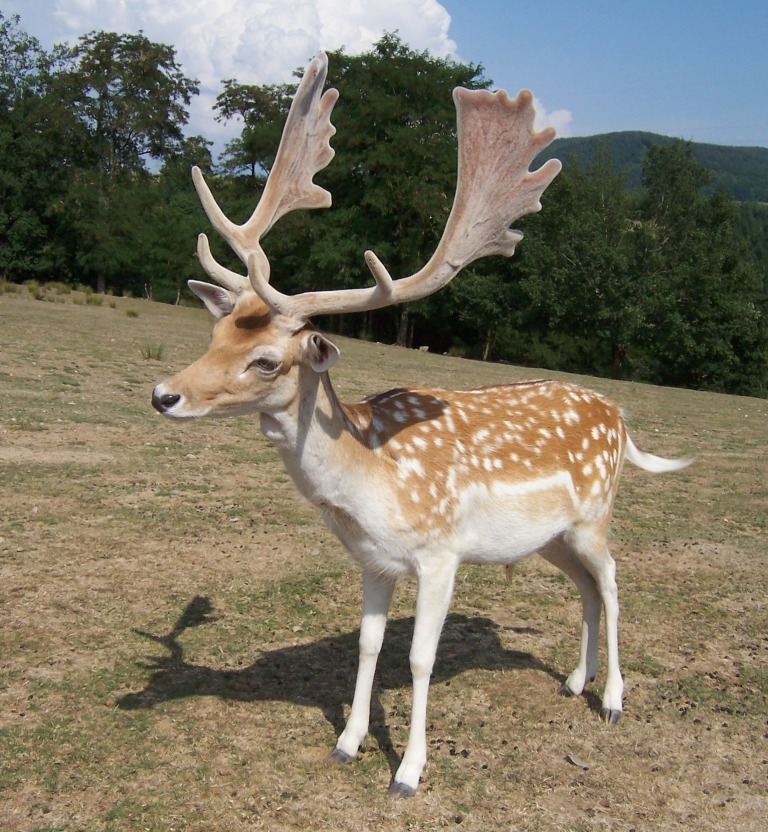 Male fallow deer (Dama dama) in Vallée des daims, Junhac, Cantal, France